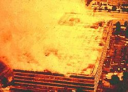 The 1973 National Archives Fire, a severe blow to the National Archives and Records Administration of the United States, was a disastrous fire that occurred at the National Personnel Records Center (NPRC) in St. Louis, Missouri.